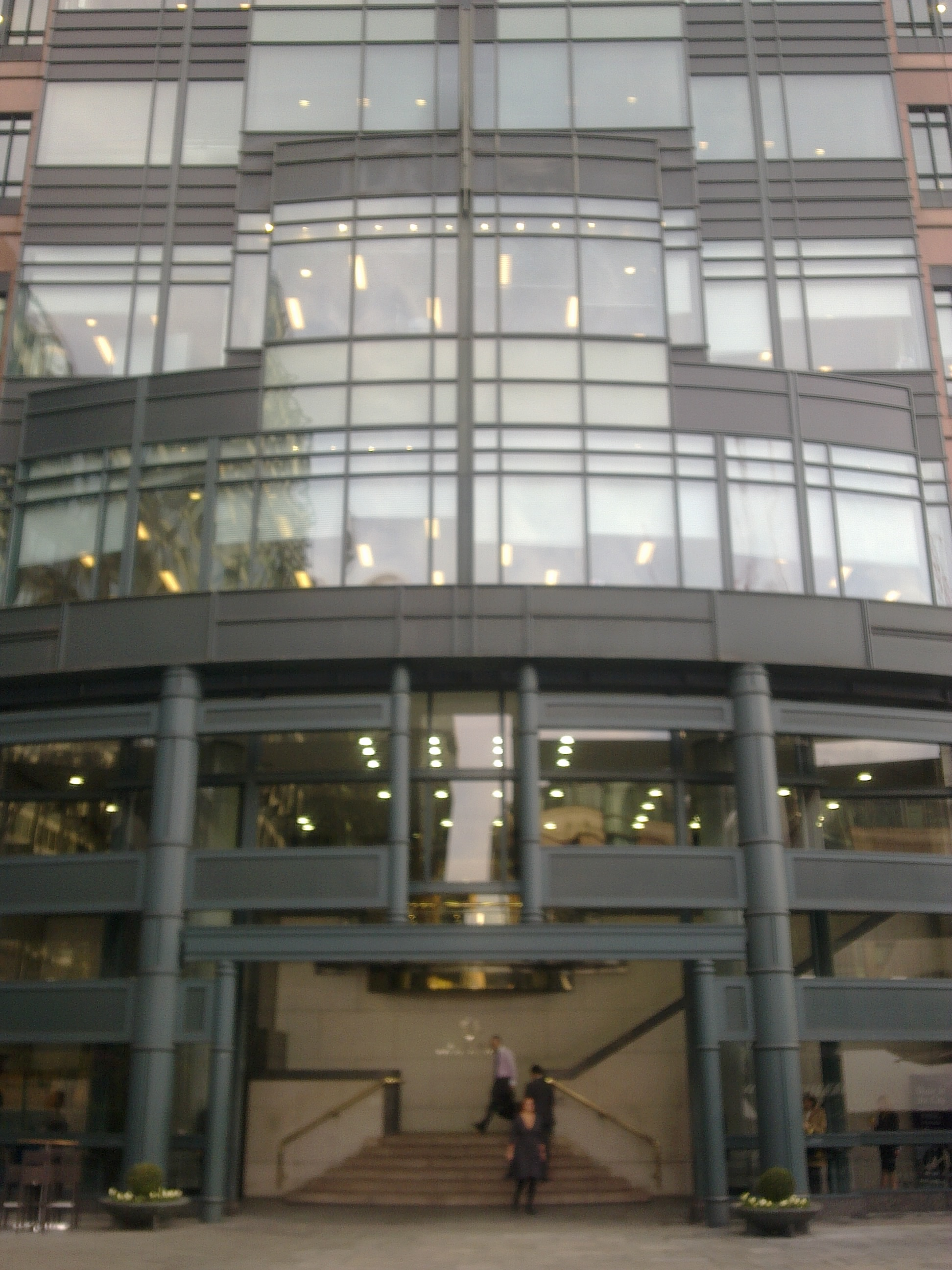 EBRD hq in London